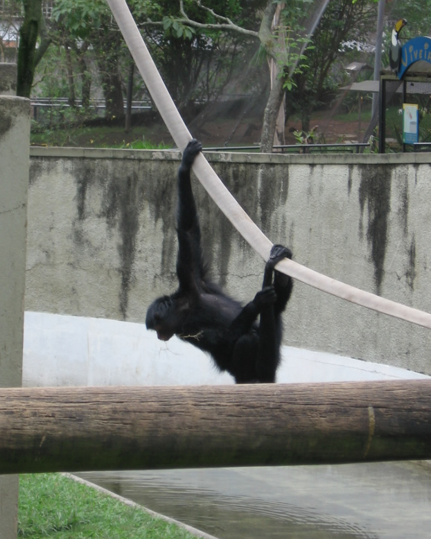 Ateles paniscus paniscus